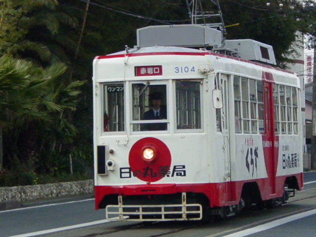 3100 Toyohashi Railway type train … It is tram vehicle manufactured between 1937 and 1942. It takes an active part with the Nagoya streetcar, nine cars transfer the register to Toyohashi Railway in 1971, and it takes an active part. Retirement schedule by 2006.